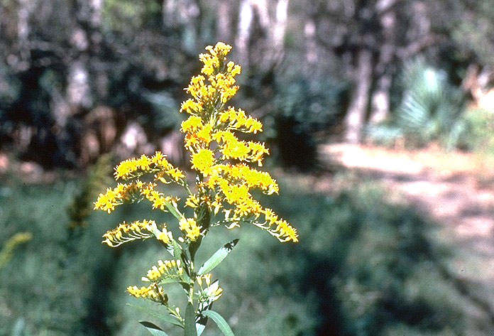 a Solidago sp., but not Oligoneuron rigidum (which is also known as Solidago rigida)